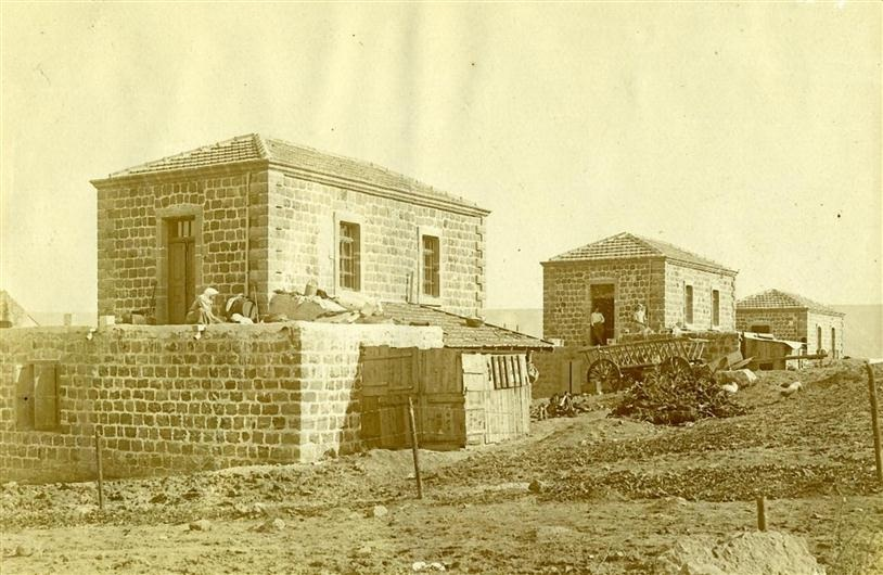 The three houses in Tiberia - back view